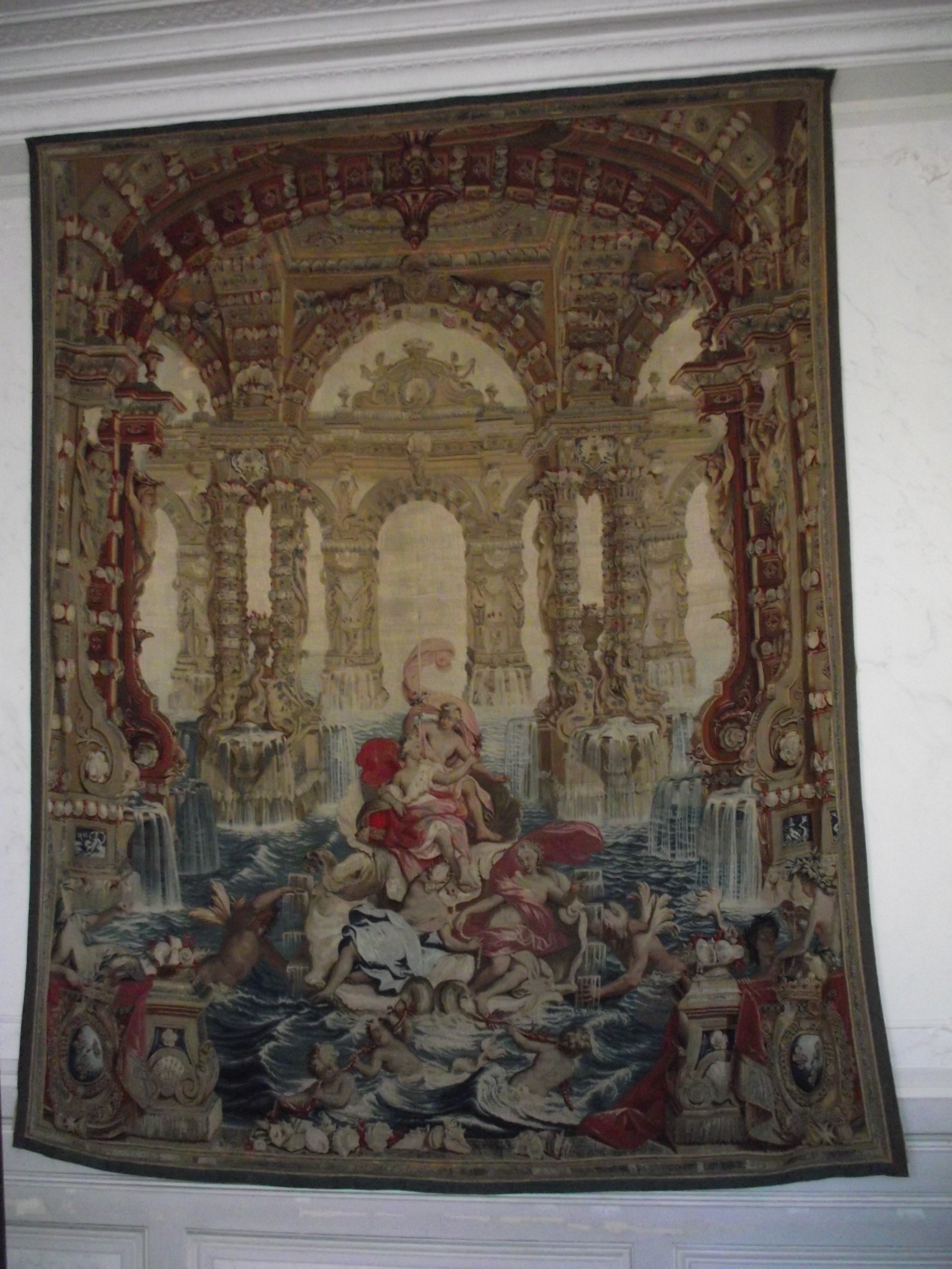 Paris, Hôtel de Toulouse, Banque de France, Beauvais Tapestry: "Les Trionphes Marins", J.Bérain, 1698